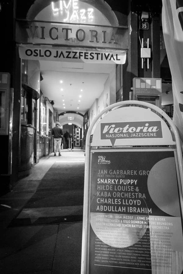 The enterance for Victoria Teater in Oslo. This is the location of the National Jazz Scene and a venue during Oslo Jazzfestival.